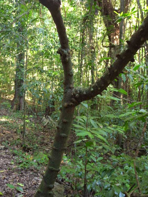 Trunk of Zanthoxylum nitidum in the Bandy Creek area, Conway National Park, near Prosperpine, Queensland